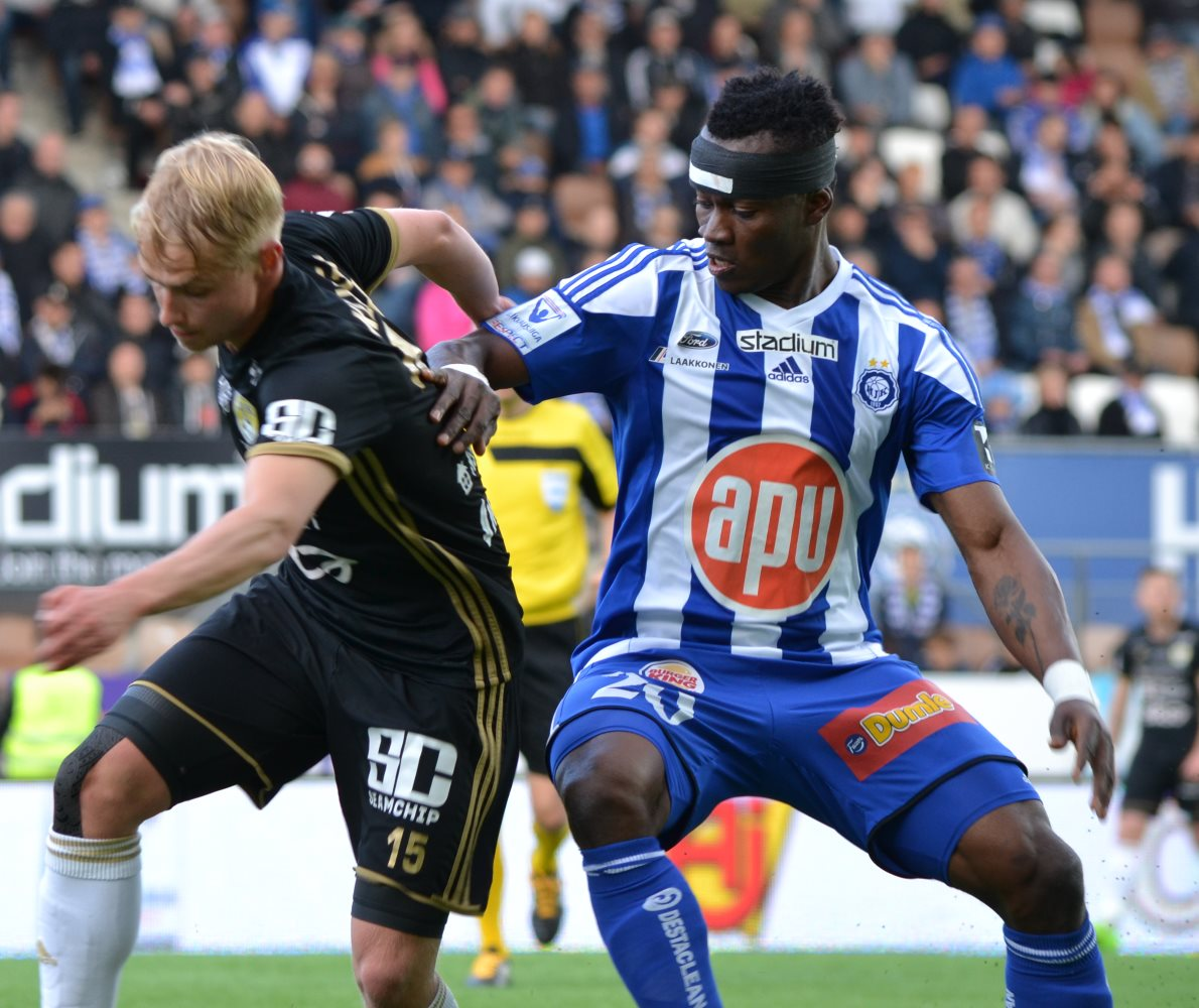 Football player Vincent Onovo